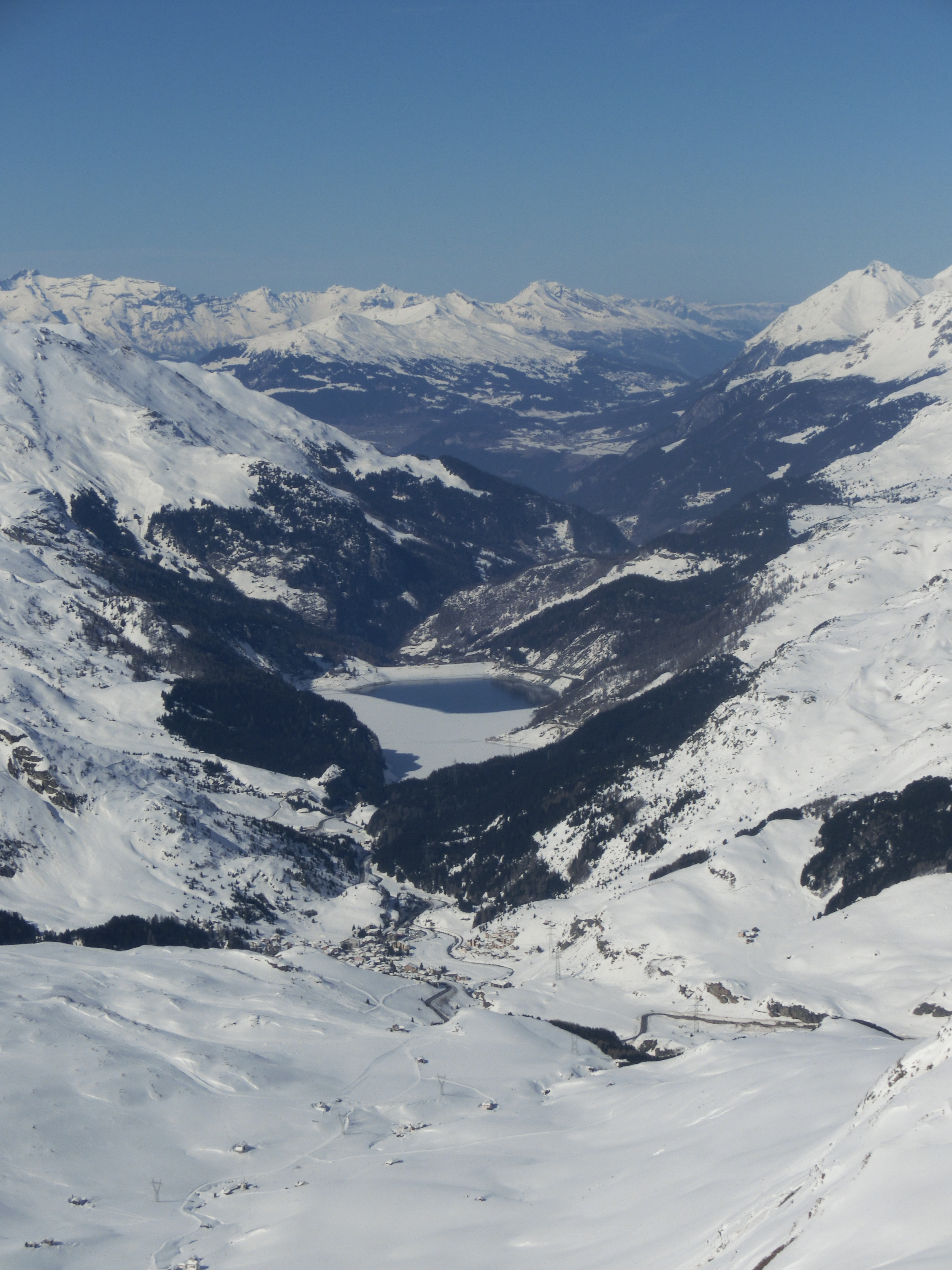 Surgôt (upper part of Oberhalbstein) with Lake Marmorera, Lenzerheide/Lai in the background as seen from Piz Grevasalvas, Sils im Engadin/Segl, Bregaglia, Bivio, Grison, Switzerland